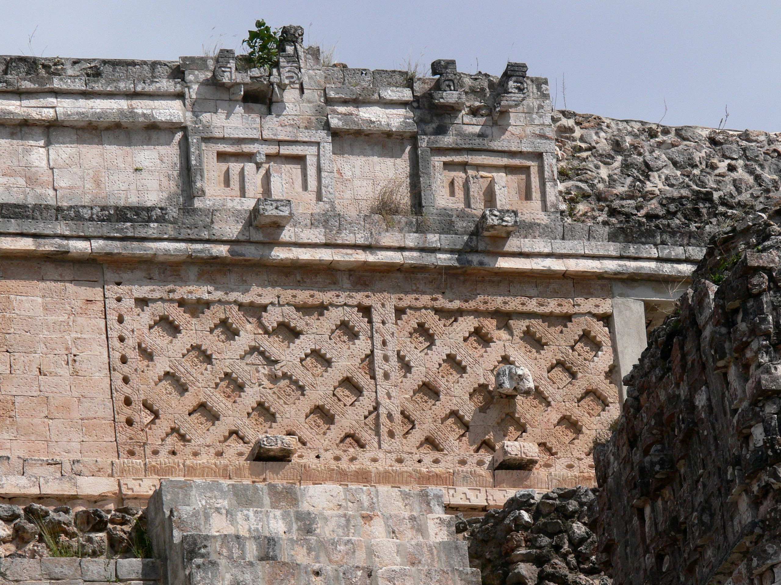 Uxmal ( Yucatan ). Pyramid of the magician: Ornaments at the temple on top of the pyramid.